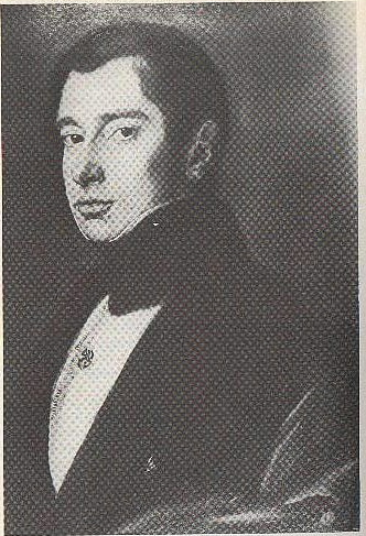 Painting of Hendrik Cato Waldeck (1811 - 1883), mayor of the Dutch village Loosduinen (since 1923 part of The Hague) from 1850 till 1872